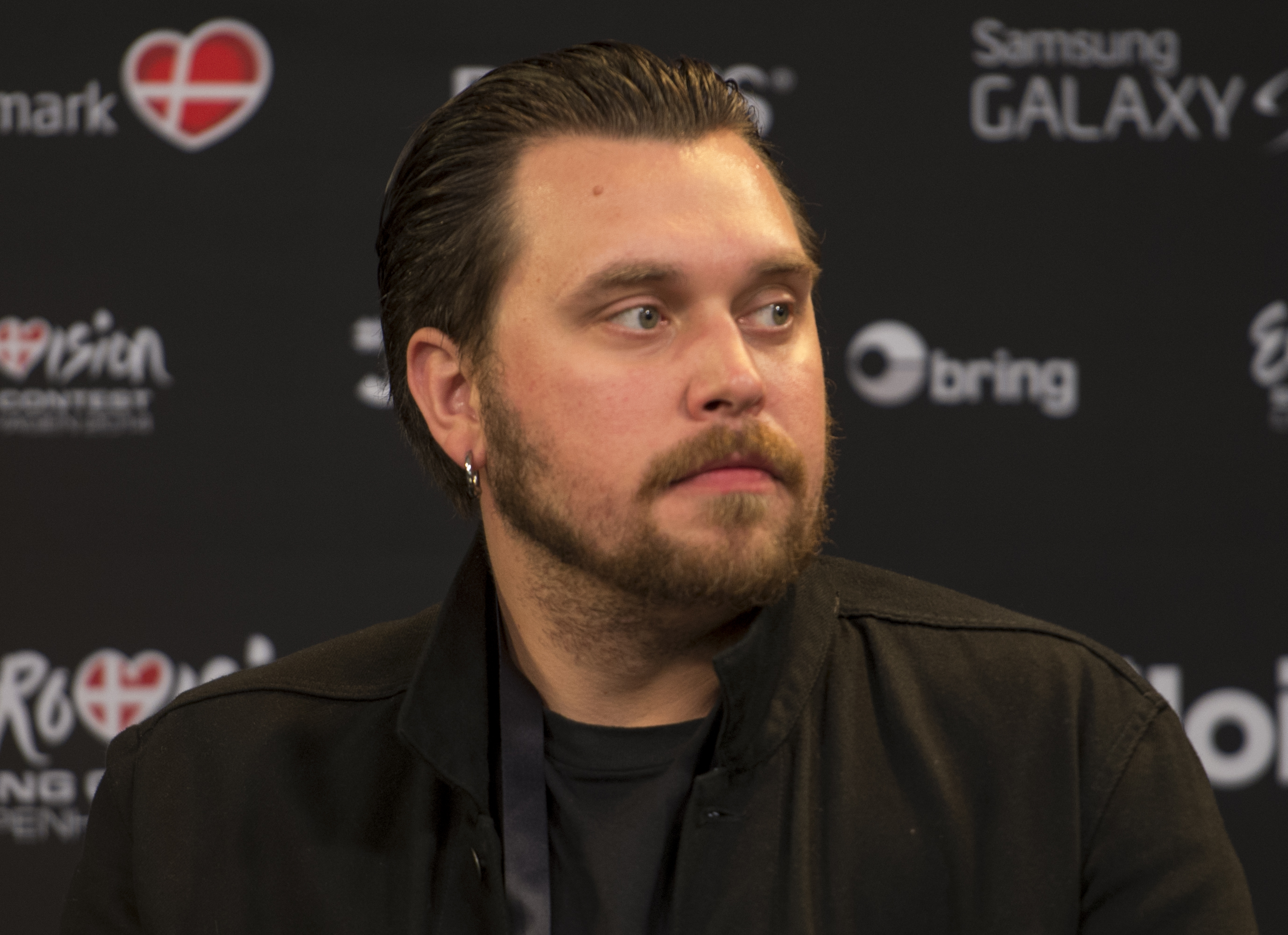 Carl Espen at a Meet & Greet during the Eurovision Song Contest 2014 Copenhagen. (Help translate this text)